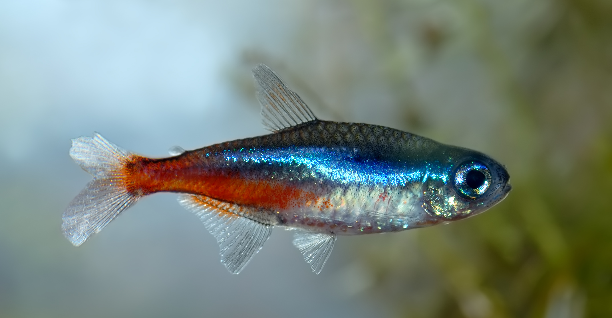 This image shows a Neon tetra (Paracheirodon innesi).